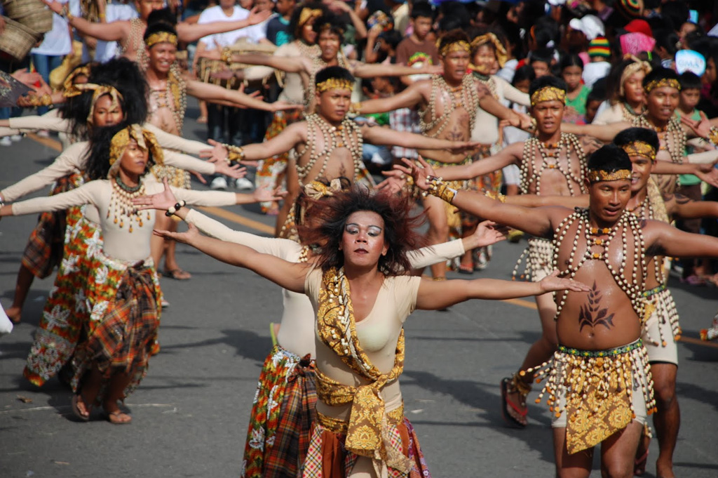 babaylan